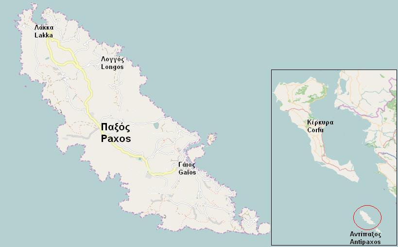 Paxoi